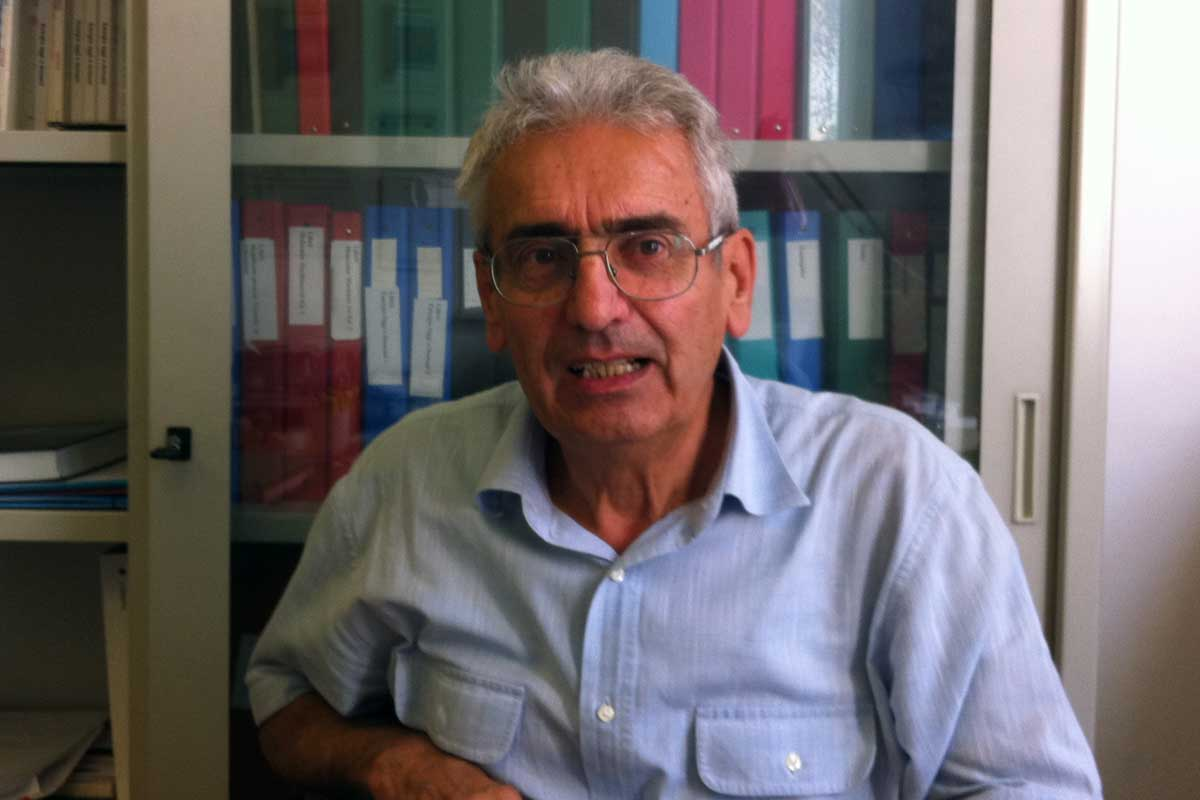 Photo of Vincenzo Balzani, italian chemist